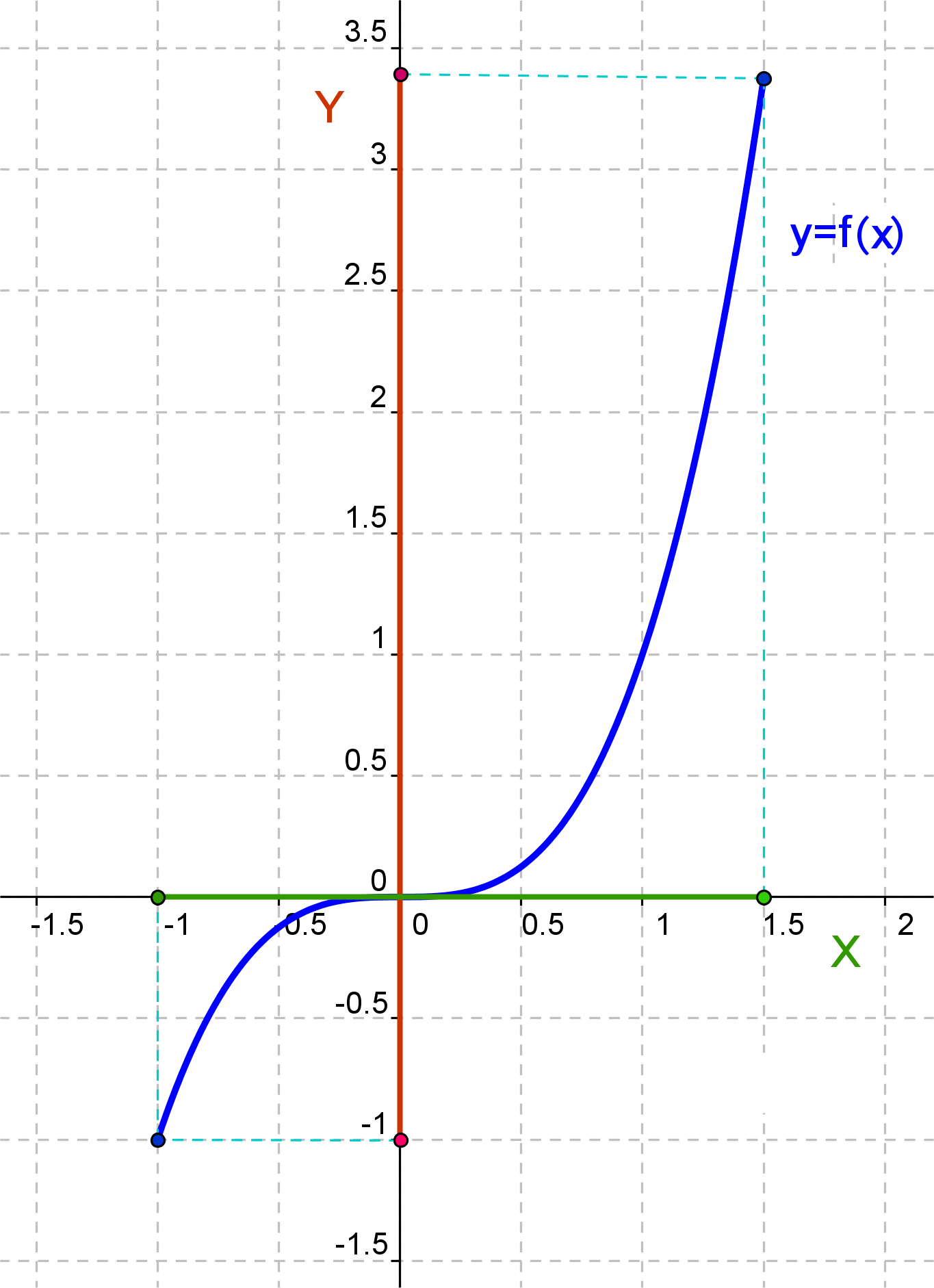 Domain and Codomain of the function f(x)=x3 in Cartesian coordinates